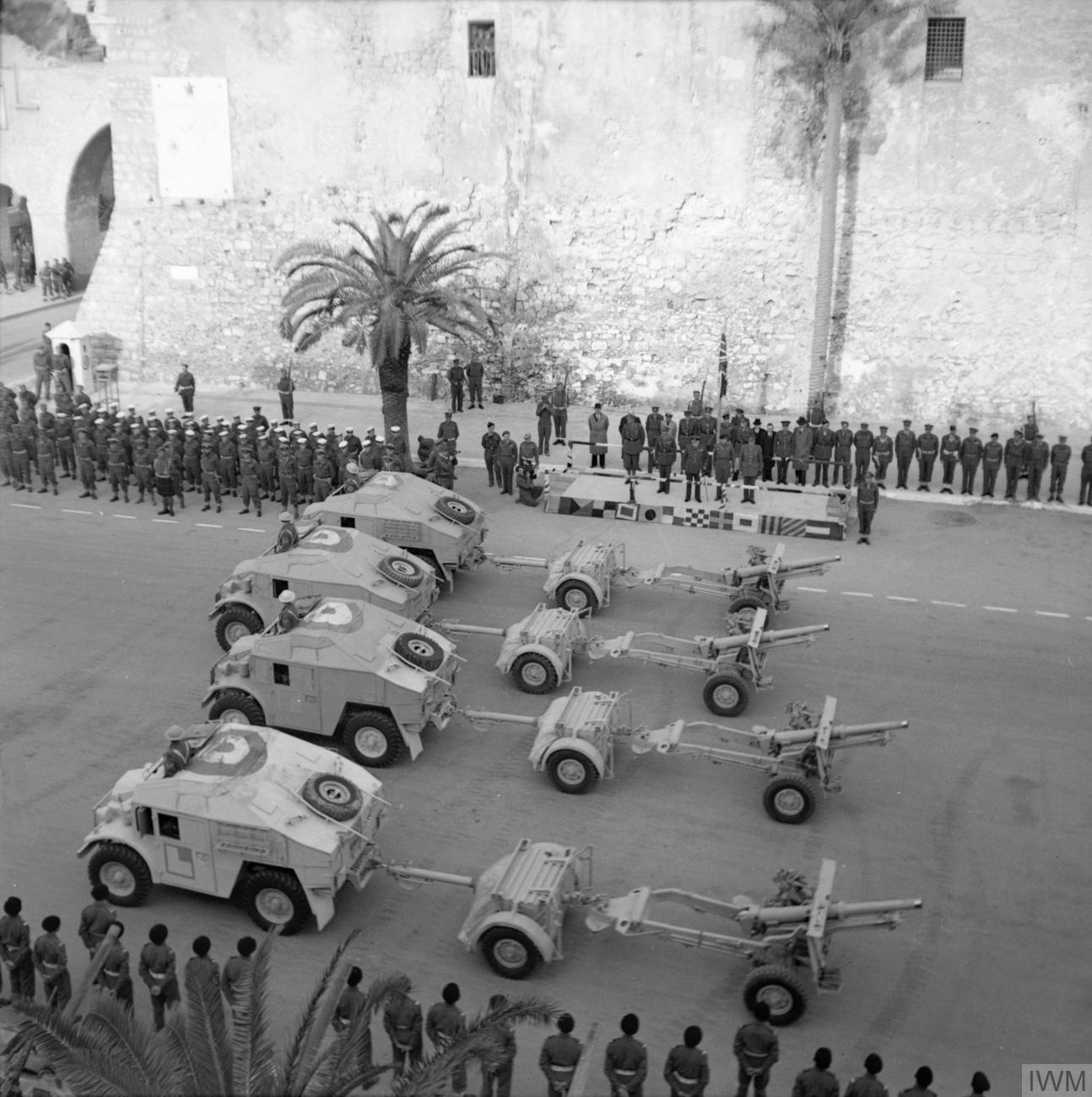 The British Army in North Africa 1943 25-pdr field guns and 'Quad' artillery tractors parade past Winston Churchill during his visit to Tripoli to thank the 8th Army for its success in the North African campaign, 4 February 1943.